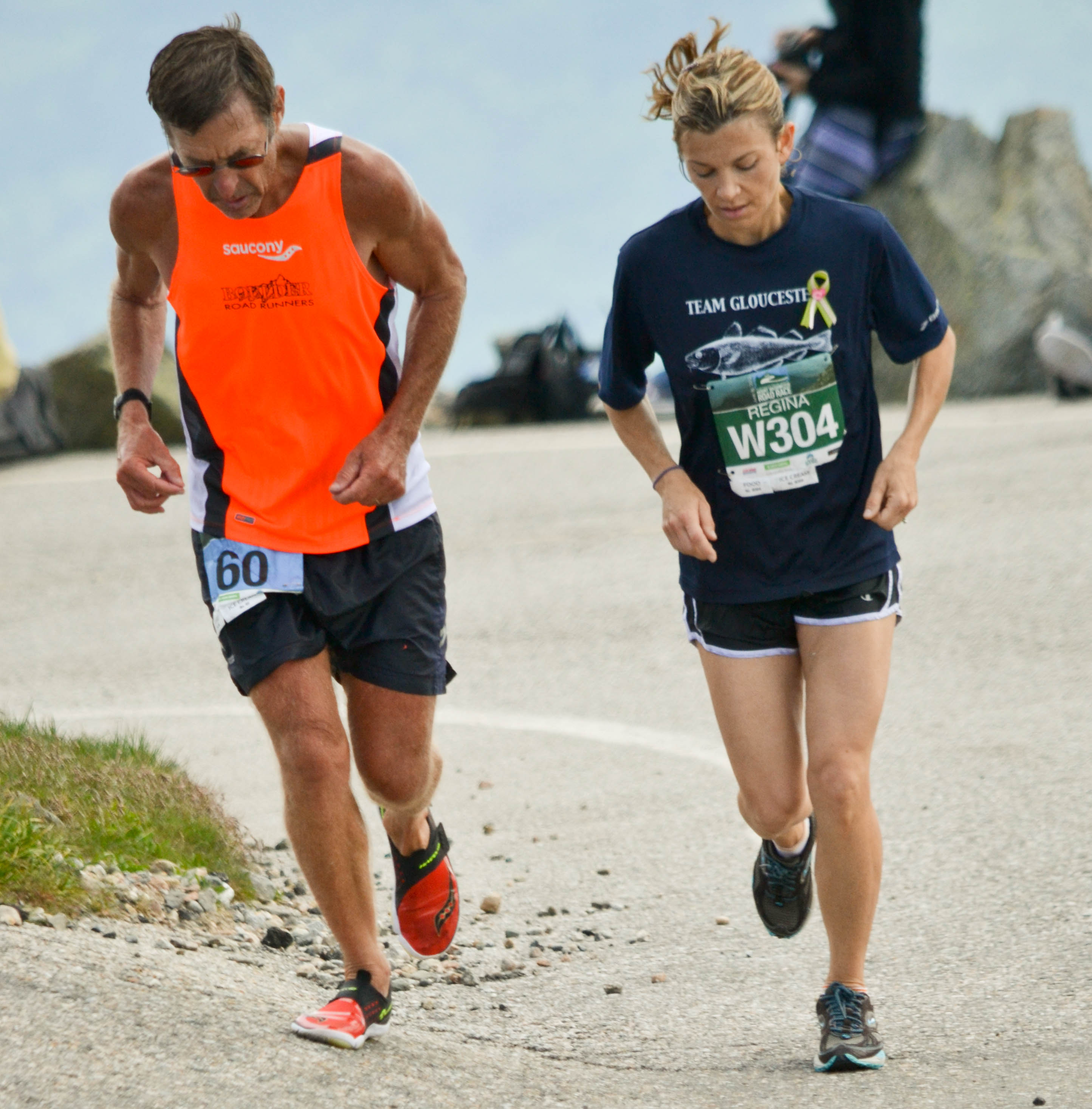 Chuck Smead (left) and Regina Loiacano (right) at 2012 Mount Washington Road Race